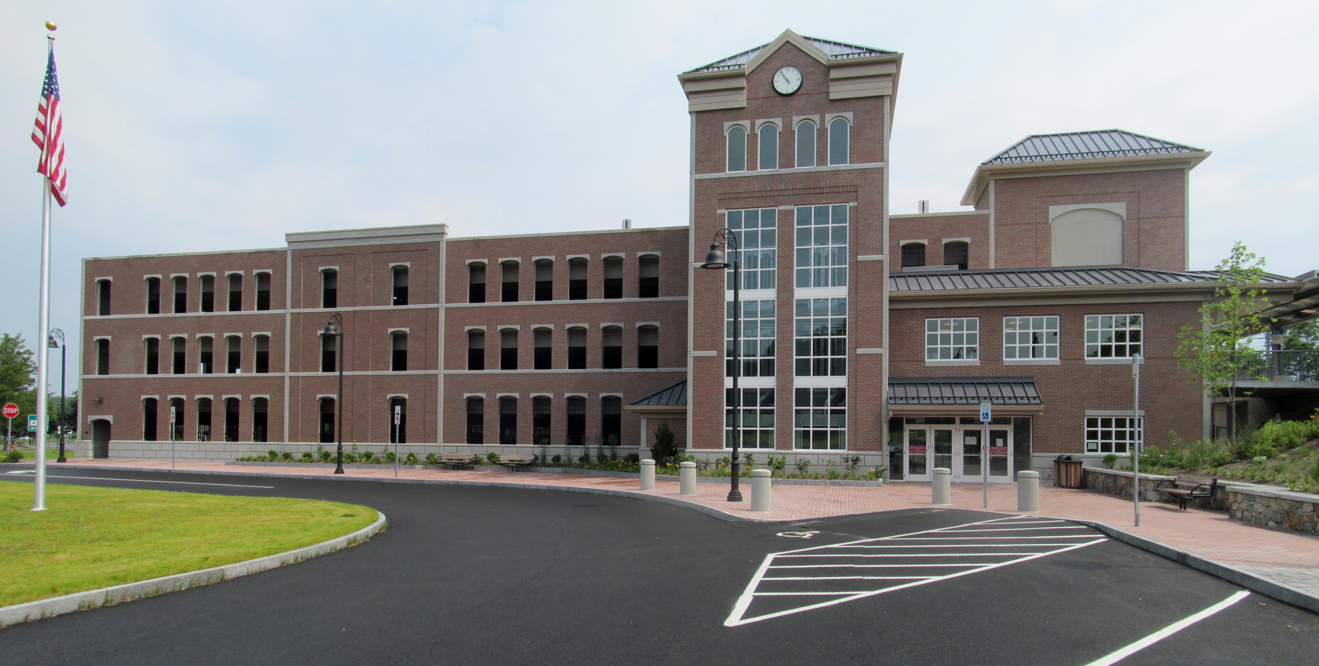 The new parking garage at Wickford Junction, as seen from the drop-off lane.